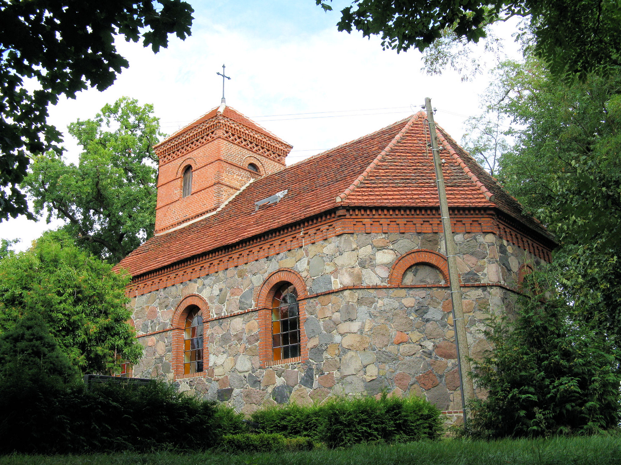 Church in Massow, disctrict Müritz, Mecklenburg-Vorpommern, Germany